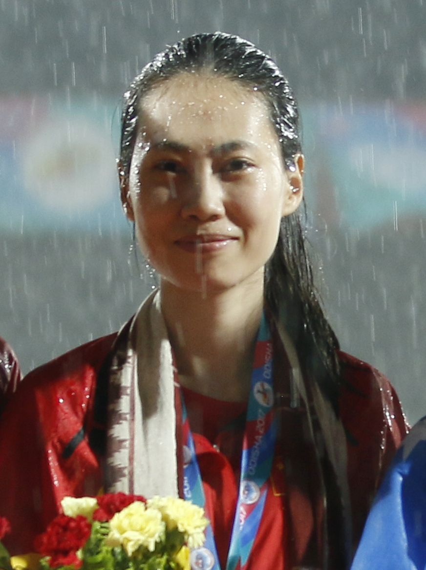 Athletes during 22nd Asian Athletics Championships in Bhubaneswar. Gold Nadiya Dusanova 749 17-11-87 UZBEKISTAN 1.84m Silver Yeung Man Wai 238 18-09-94 HONG KONG 1.80m Silver Wang Xueyi 167 08-03-91 CHINA 1.80m Silver Liu Jingyi 151 27-10-94 CHINA